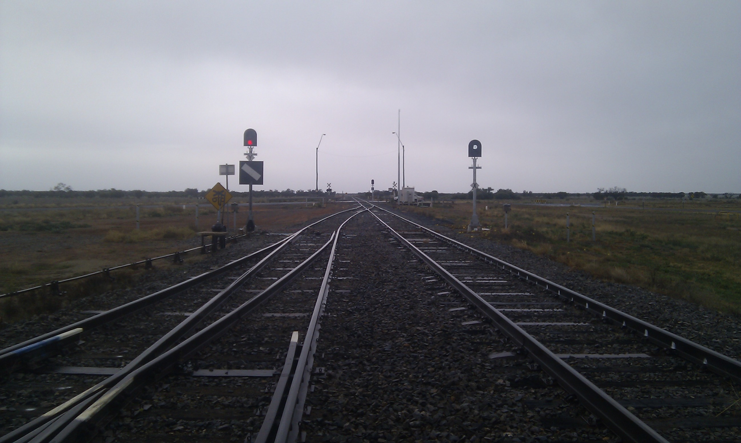 Ivanhoe railway crossing loop and mainline, looking east from station - 2011